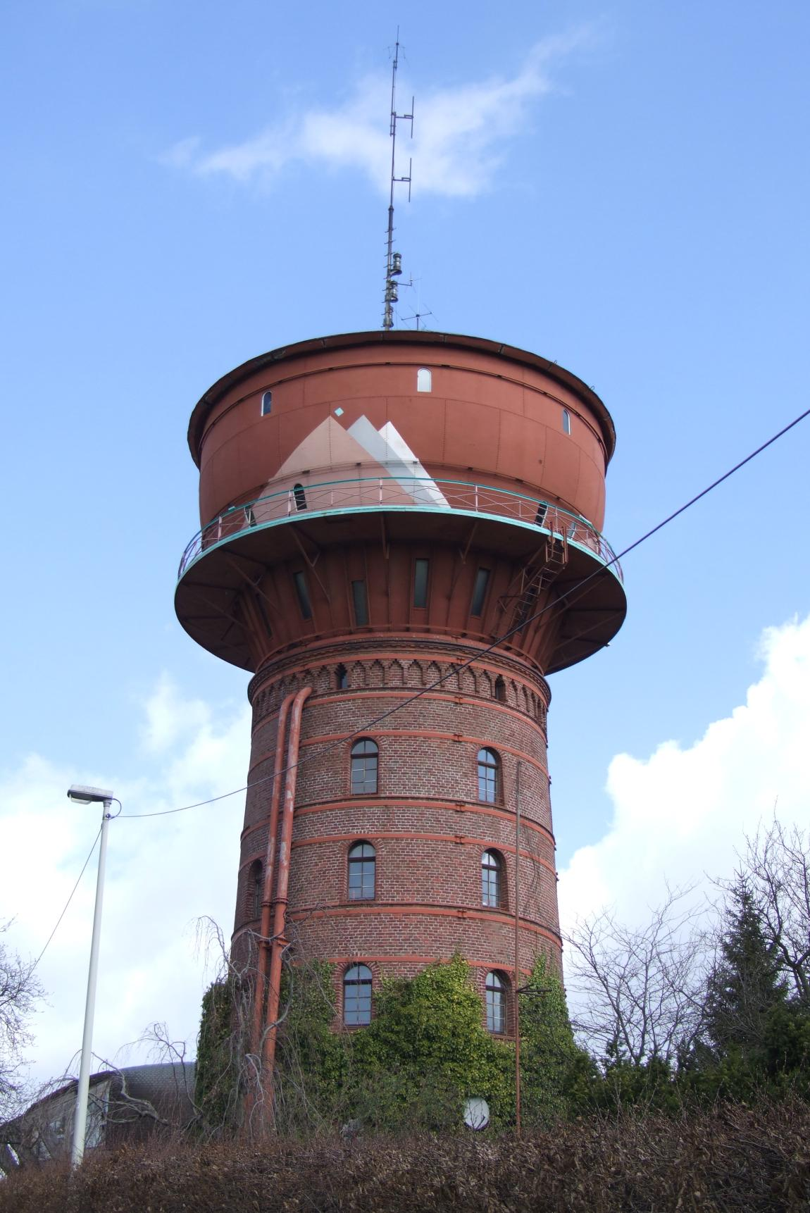 Alter Wasserturm in Frechen This is a photograph of an architectural monument. 16